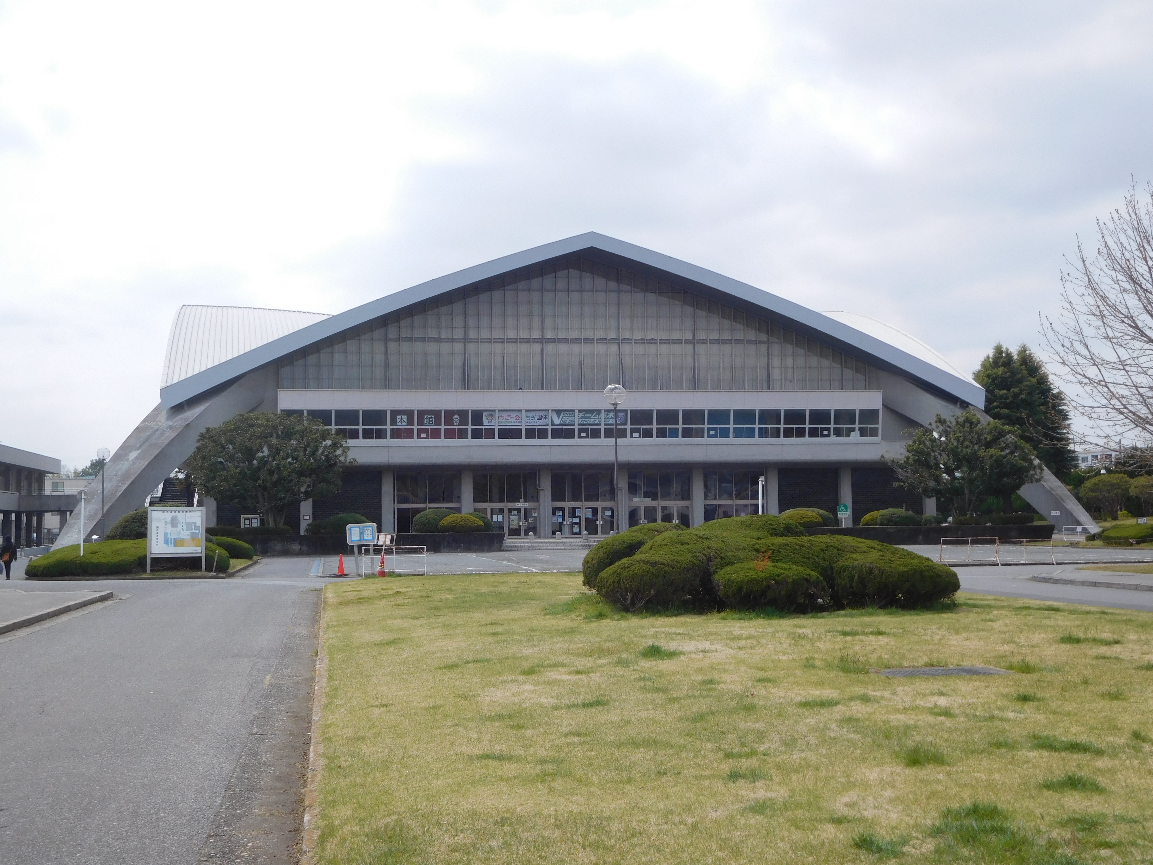 This is Tochigi Prefecture Gymnasium in Utsunomiya, Tochigi, Japan.